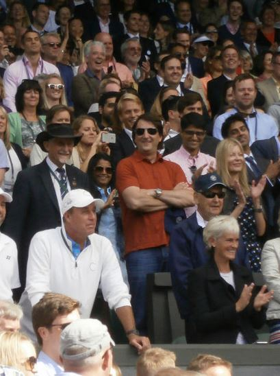 Ivan Lendl, Judy Murray and David Spearing at Wimbledon 2016